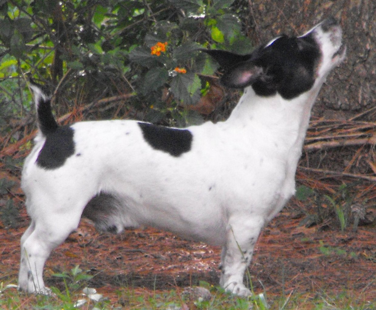 Photo of Adult Male Teddy Roosevelt Terrier showing proper leg length, body length and body depth.